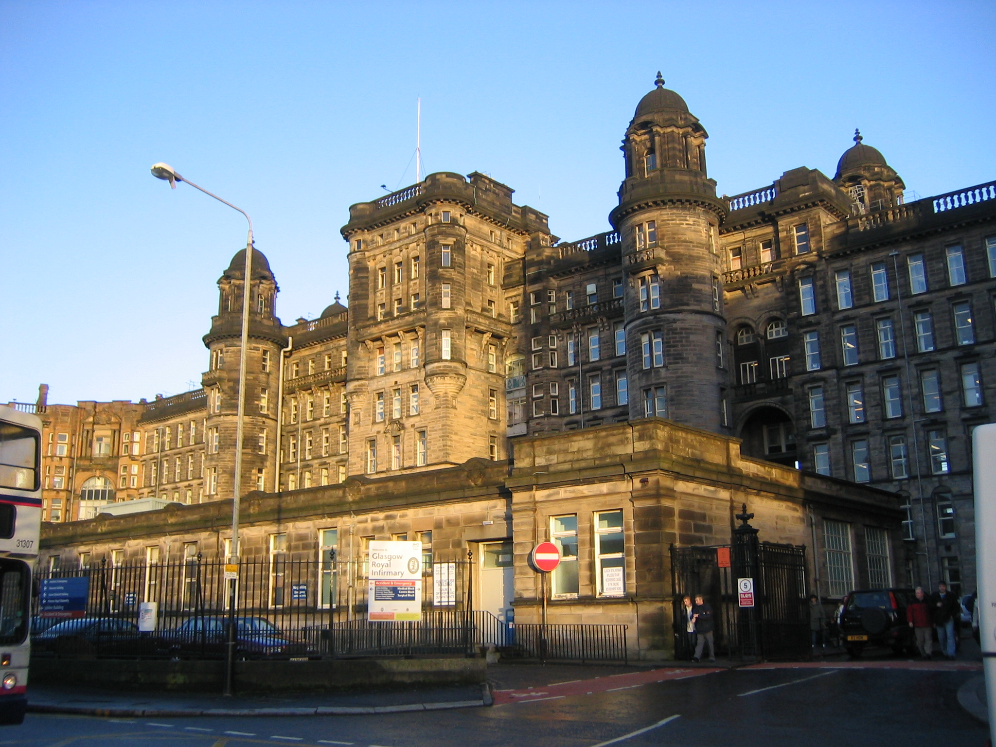 Glasgow Royal Infirmary, from across Castle Street